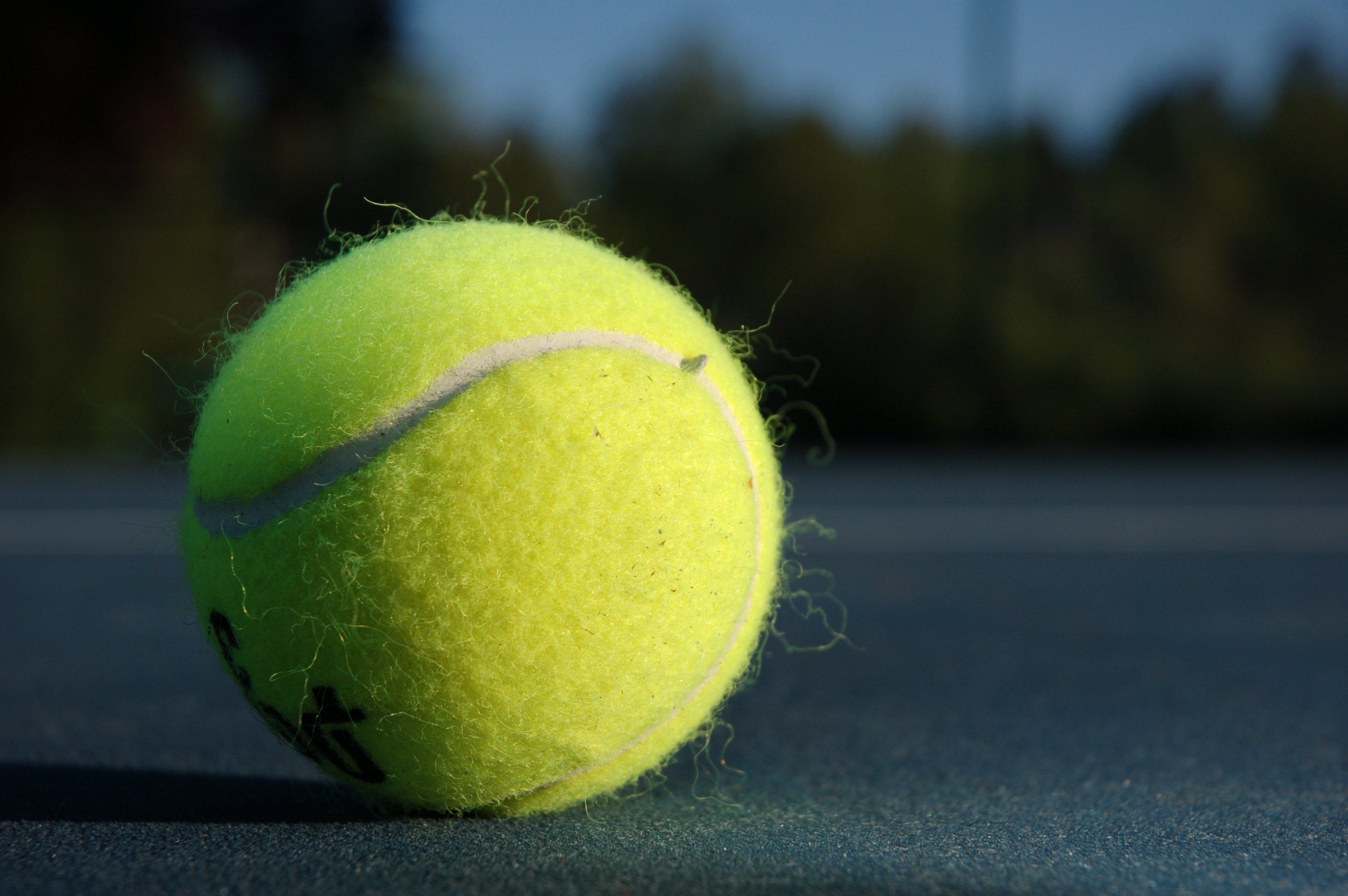 Closeup photo of a tennis ball.